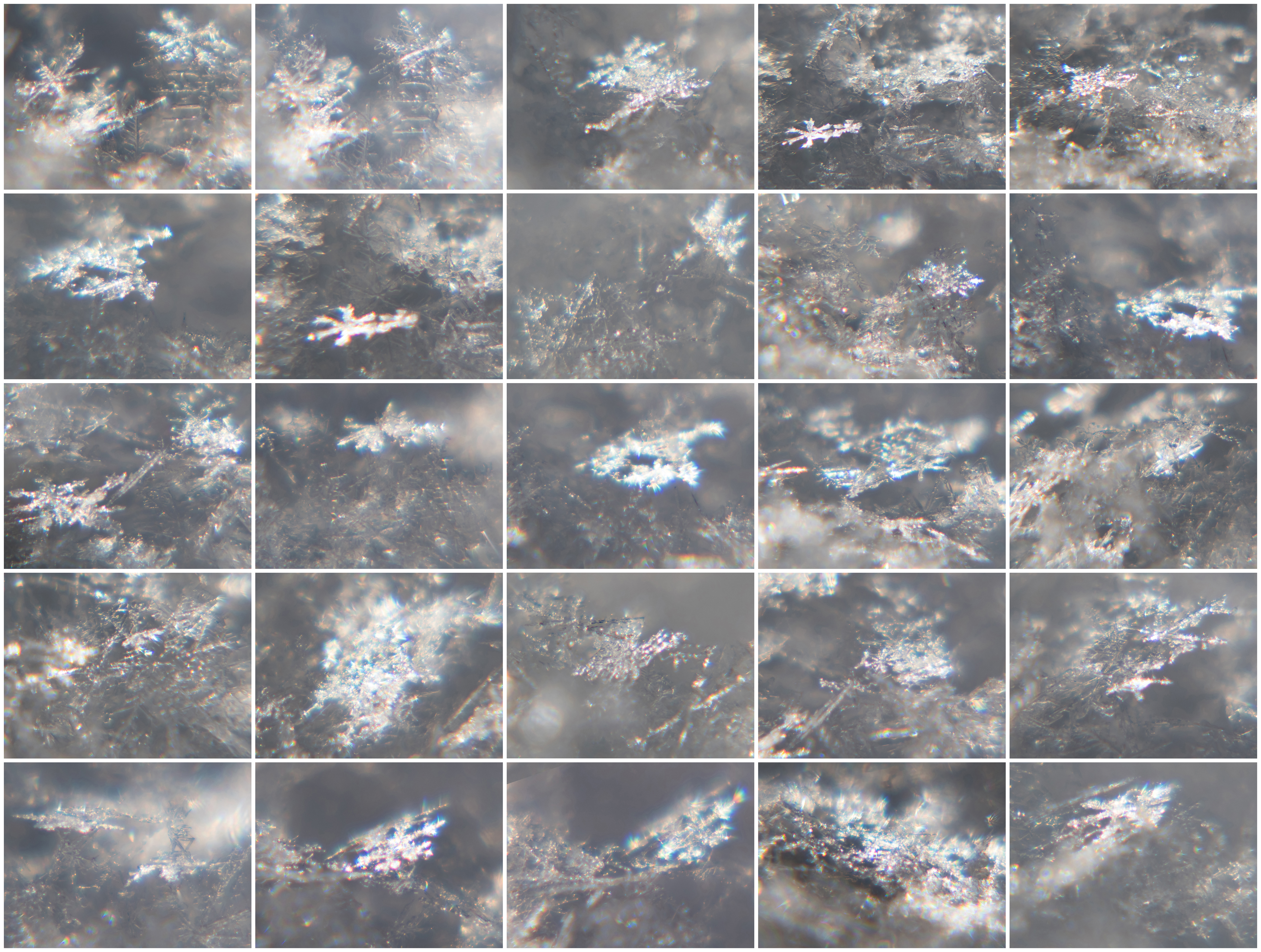 Newly fallen snow crystals glittering in strong direct sunlight on a window sill in Gåseberg, Lysekil Municipality, Sweden. The clear, transparent ice crystals act like little prisms and refracts the sunlight into small rainbows. On the day with the heaviest snowfall this winter (2017/2018), high humidity and −8 °C (18 °F), making for formation of big spectacular crystals, about 3-4 mm. The weather was changing constantly with patches of blue sky alternating with clouds and snowfall. This made it possible to photograph good quality crystals in strong light. Camera zoomed in on the most “glittery” flakes, the strong reflected glints in the snow you can see with the naked eye. Due to wind and flakes falling on the window sill, focus stacking was not really an option and only a few of the shots were eventually stacked. Three external Hoya macro lenses were used, x1, x2, x4, all simultaneously for maximum effect. Camera had to be hand-held to track down the glints which was ok, given the amount of light on the crystal and the resulting time of exposure.